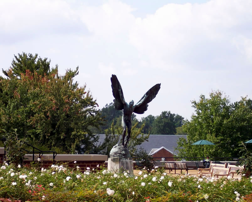 Statue The Aviator in Charlottesville, Virginia